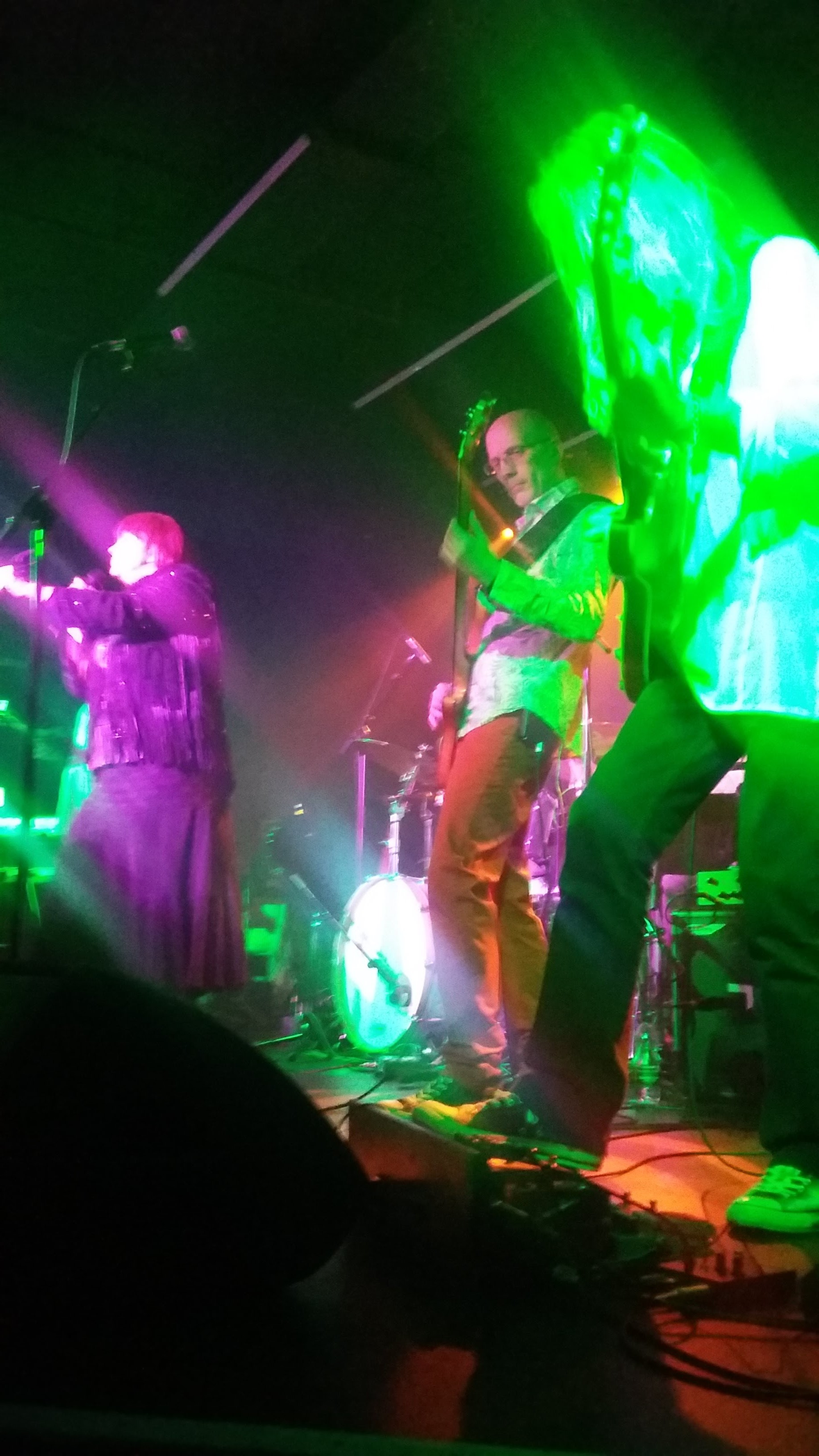 Curved Air in London, February 2016